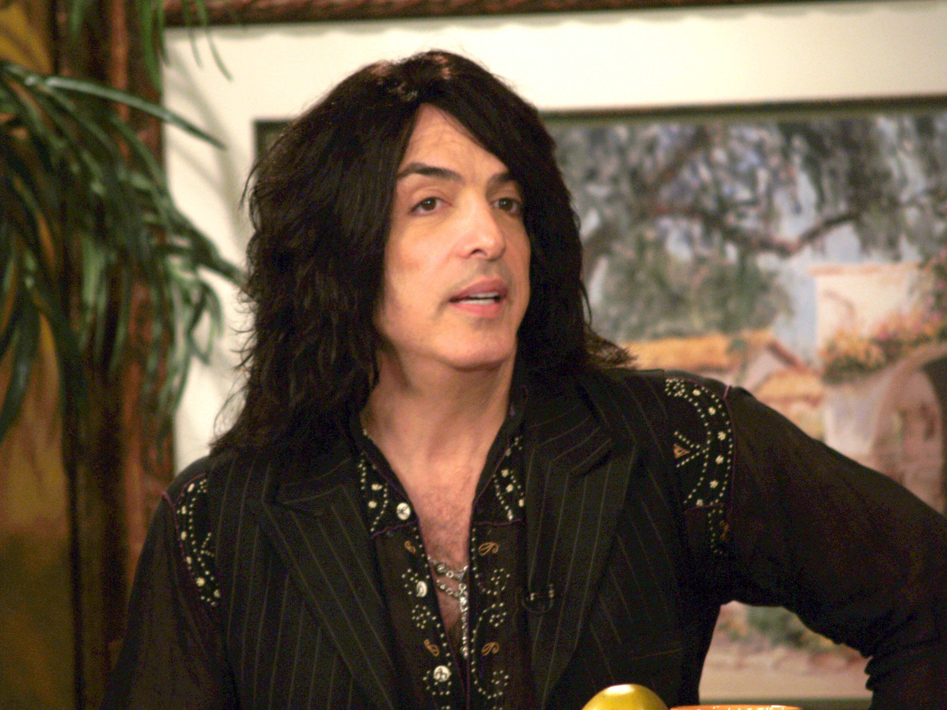 Paul Stanley, San Diego, California, USA Please acknowledge "Phil Konstantin" as the creator of this photograph.